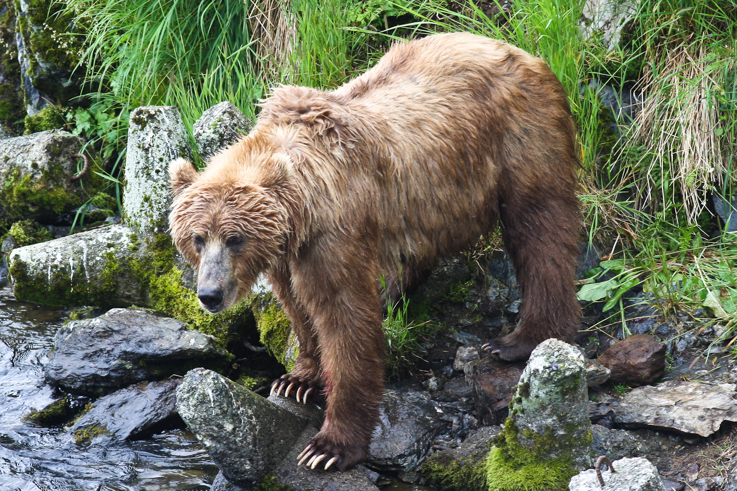 Kodiak brown bear watching for fish